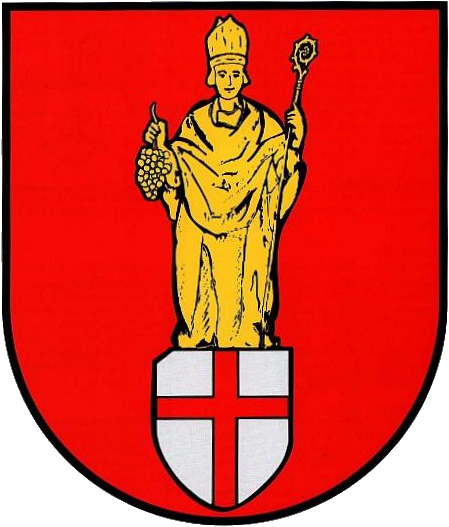 Coat of arms of Alf (Mosel)